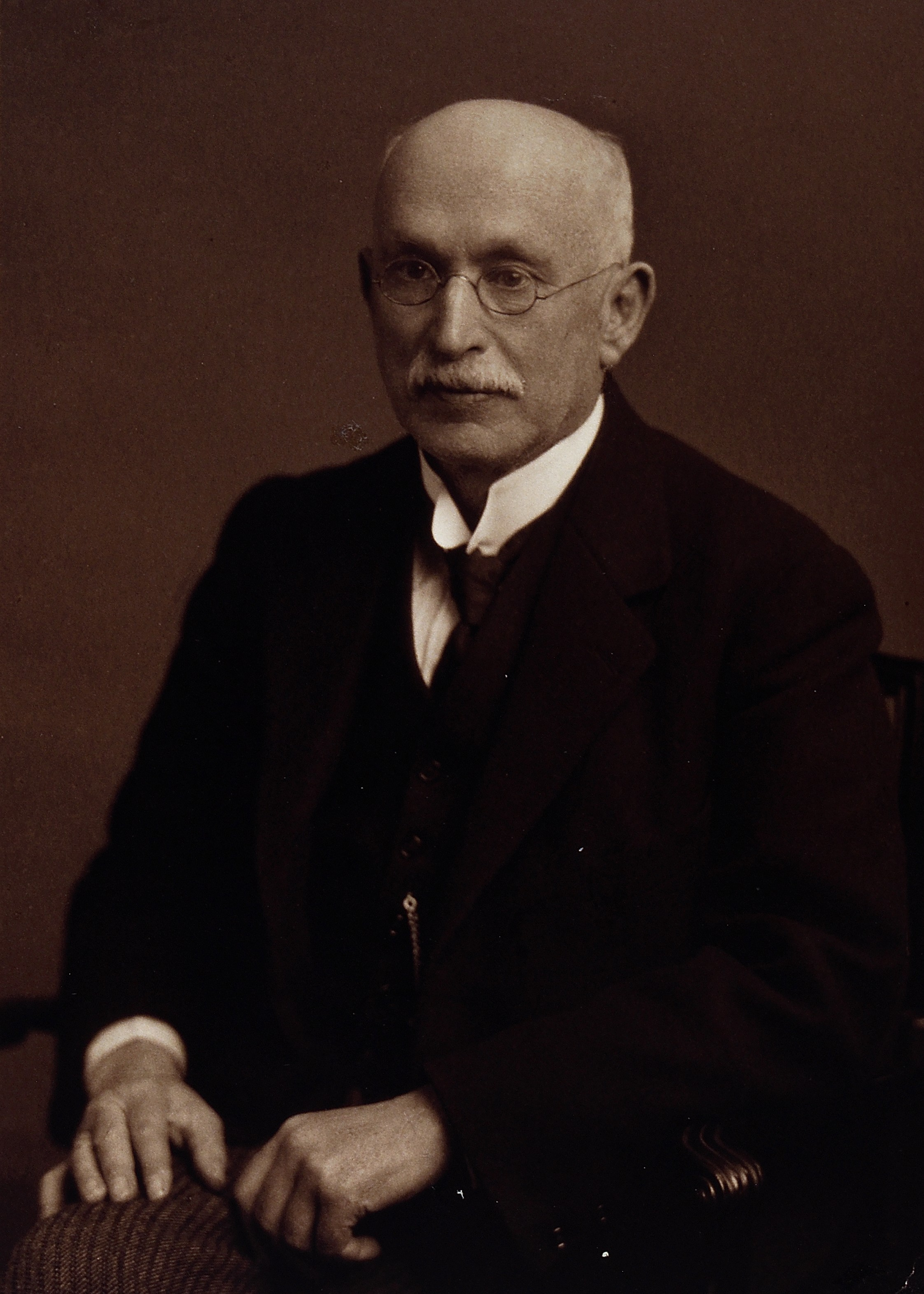 Andrew Freeland Fergus. Photograph by T. & R. Annan & Sons. Iconographic Collections Keywords: portrait photographs